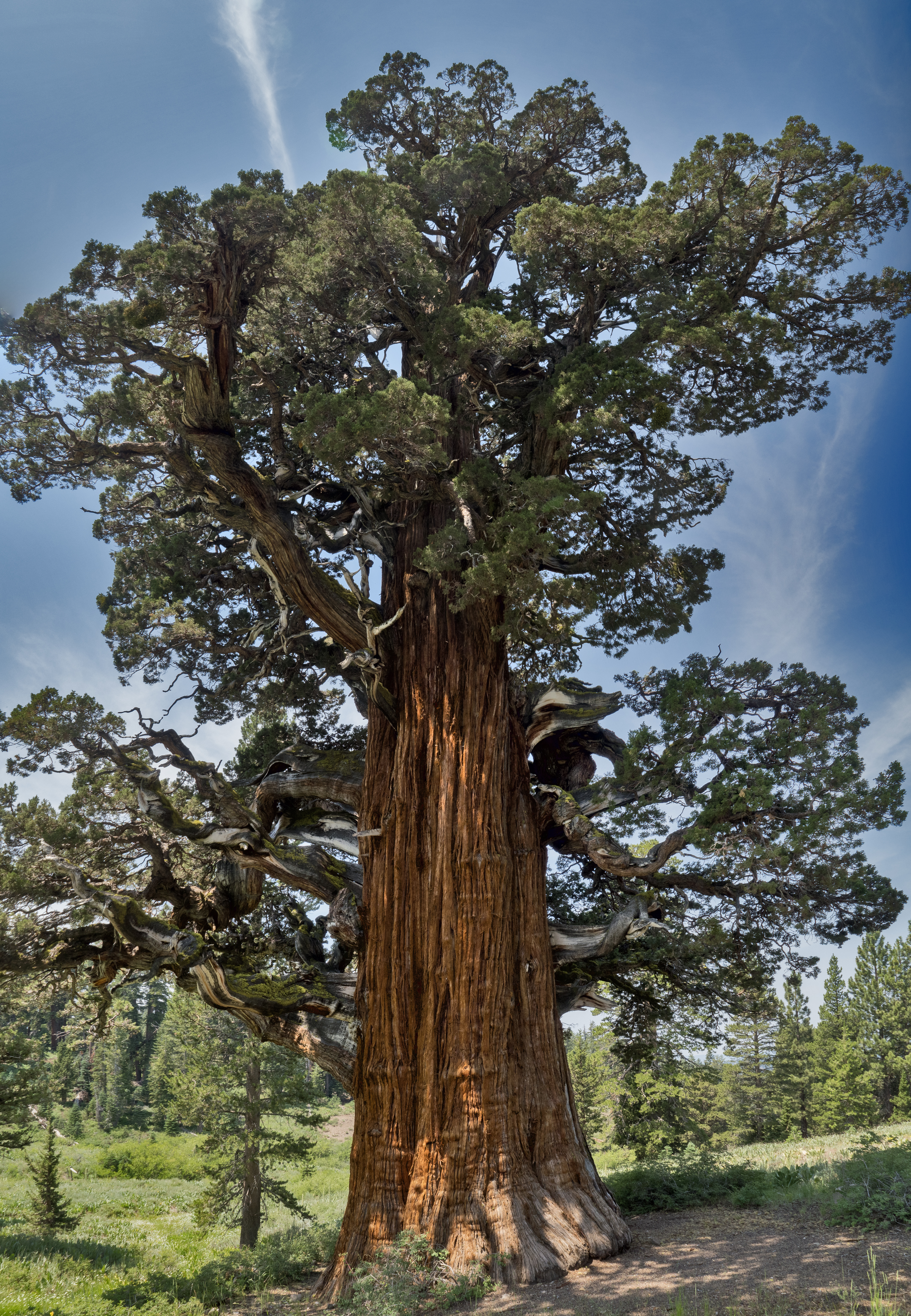 The Bennett Juniper tree in Stanislaus National Forest in Tuolumne County, California, largest juniper tree in North America. View of the south side. It is located in a preserve and one is not allowed at the base of the tree.